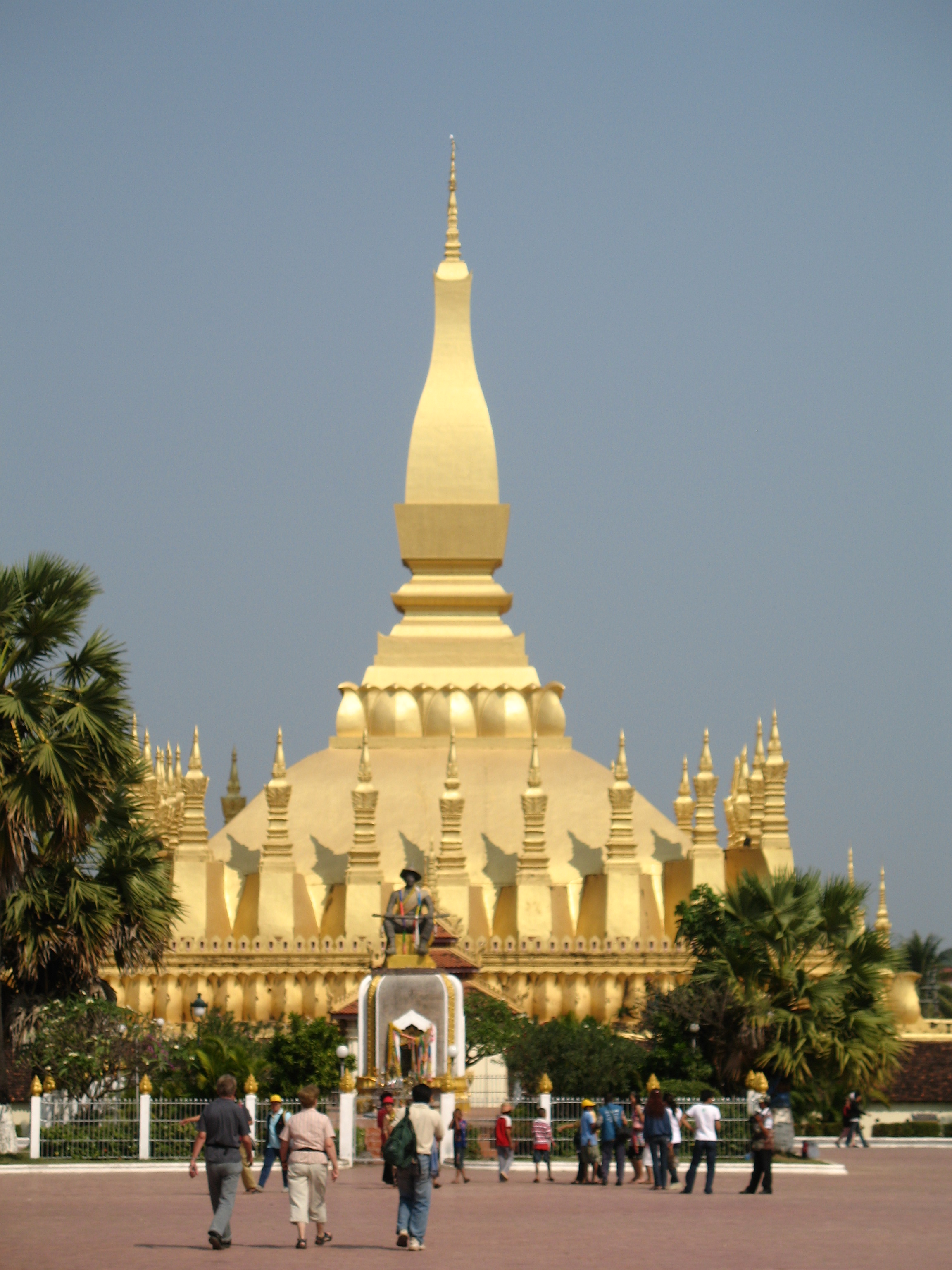 Pha Than Luang stupa in Vientiane, Lao PDR